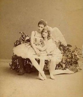 Photograph of the ballerinas Mathilde Kschessinskaya as Flora (left) and Vera Trefilova as Cupid (right) costumed for the original production of the choreographer Marius Petipa & the composer Riccardo Drigo's 1894 ballet "Le Réveil de Flore".